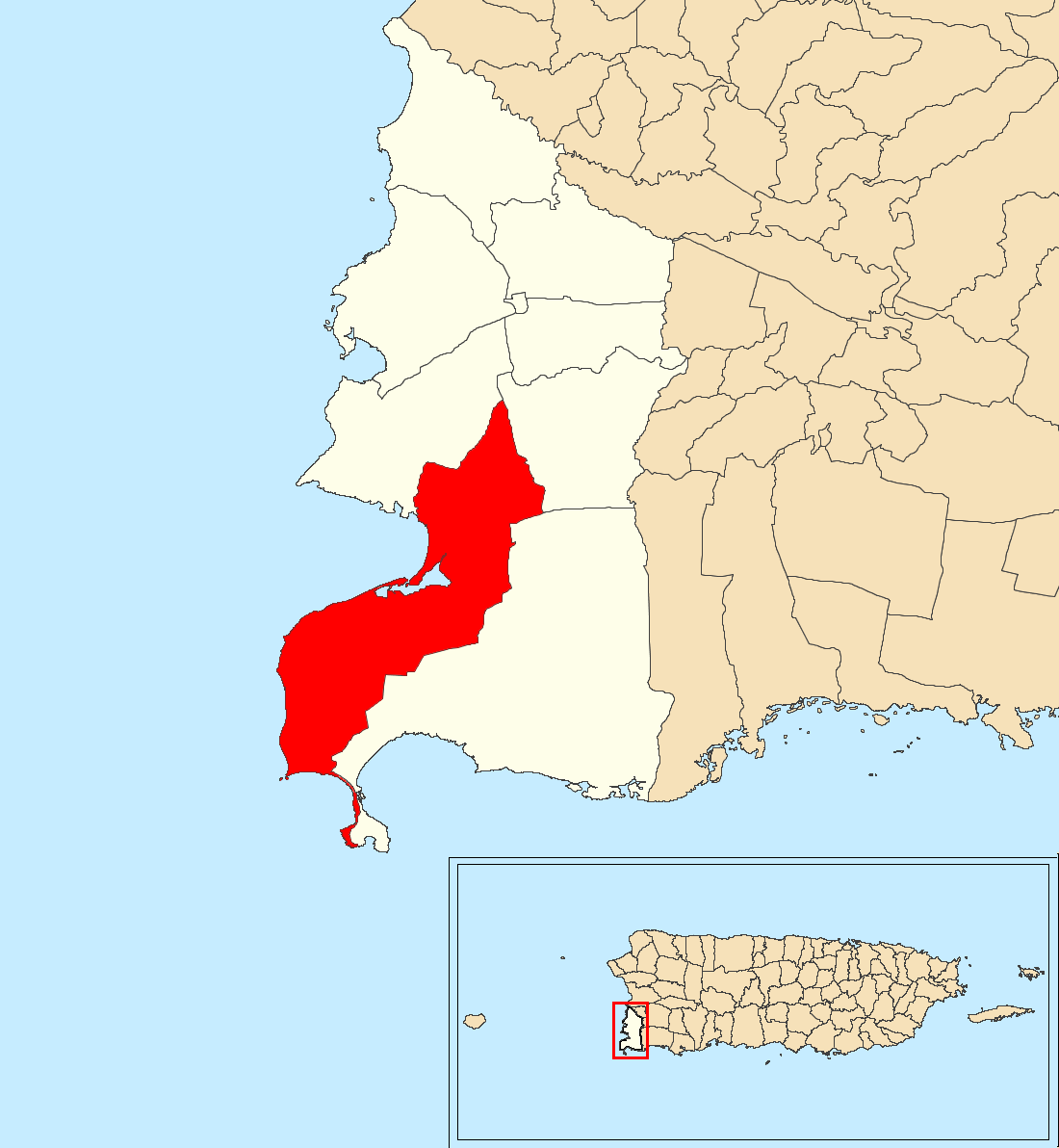 Boquerón, Cabo Rojo, Puerto Rico locator map